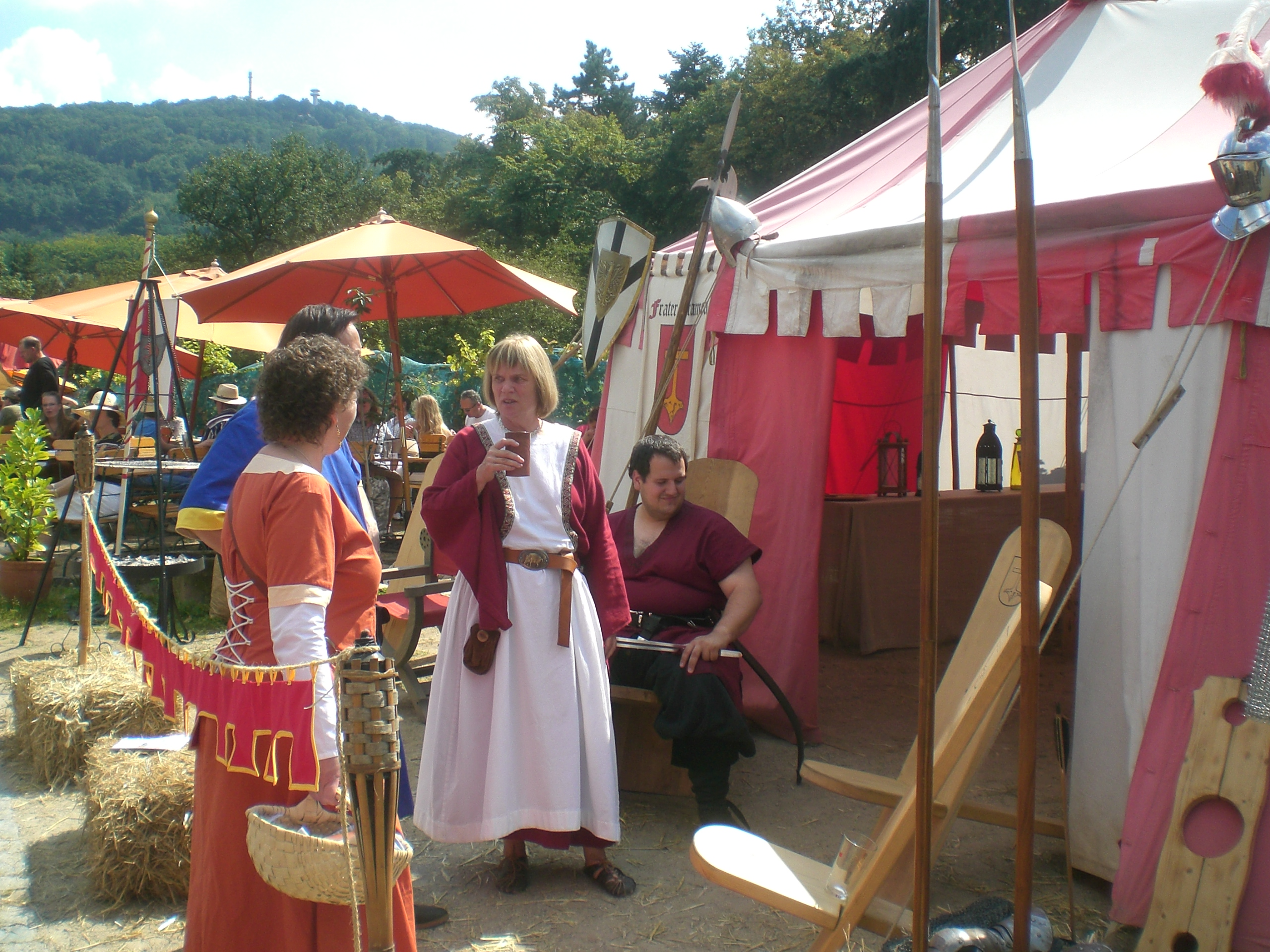 medieval festival in the castle of Alsbach, Bergstraße (Germany)